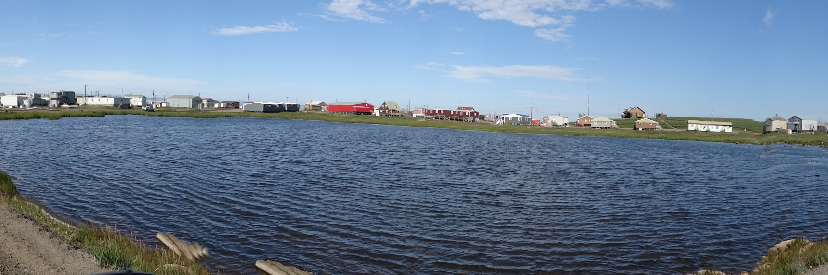 Panorama - Tuktoyaktuk - Northwest Territories - Canada